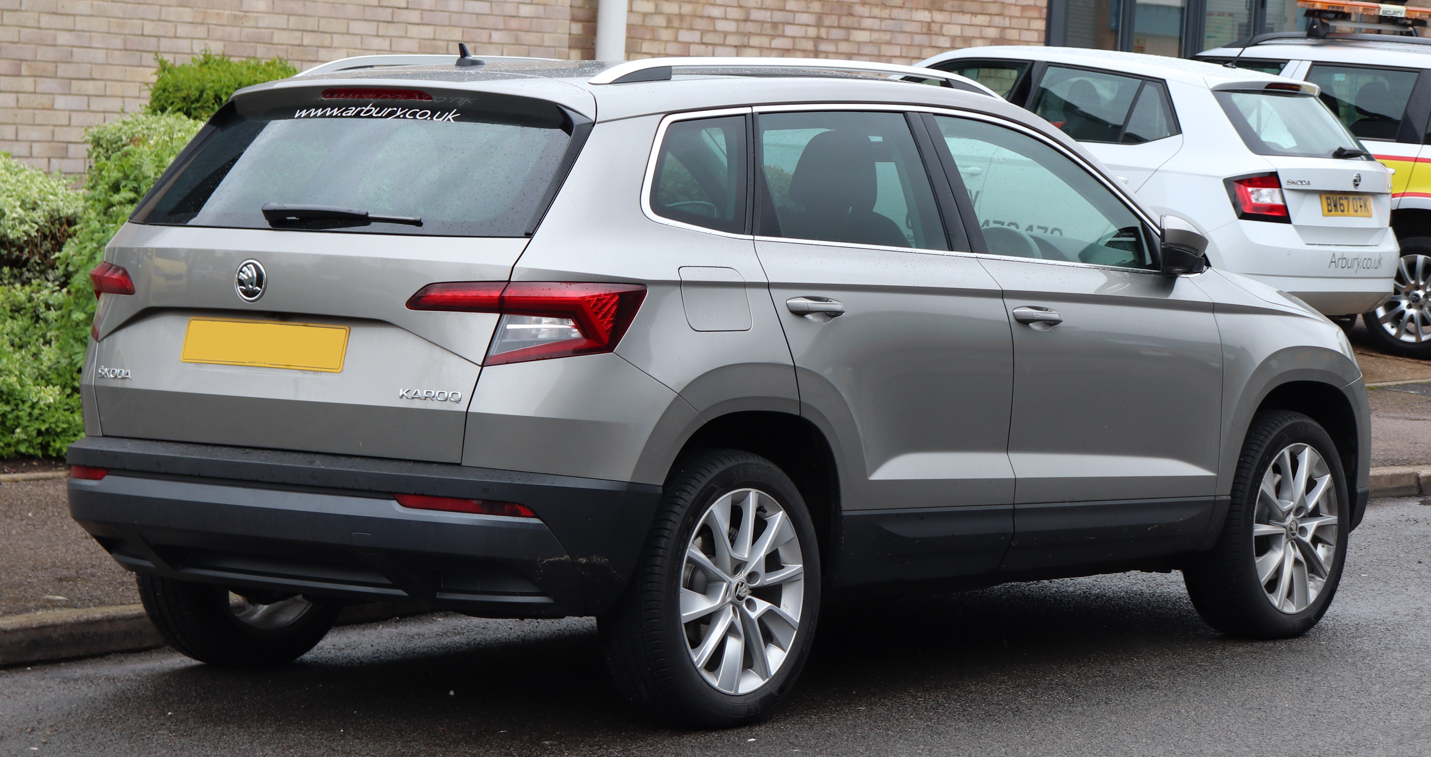 2018 Skoda Karoq SE L TDi S-A 1.6 Rear Taken in Sydnam, Leamington Spa